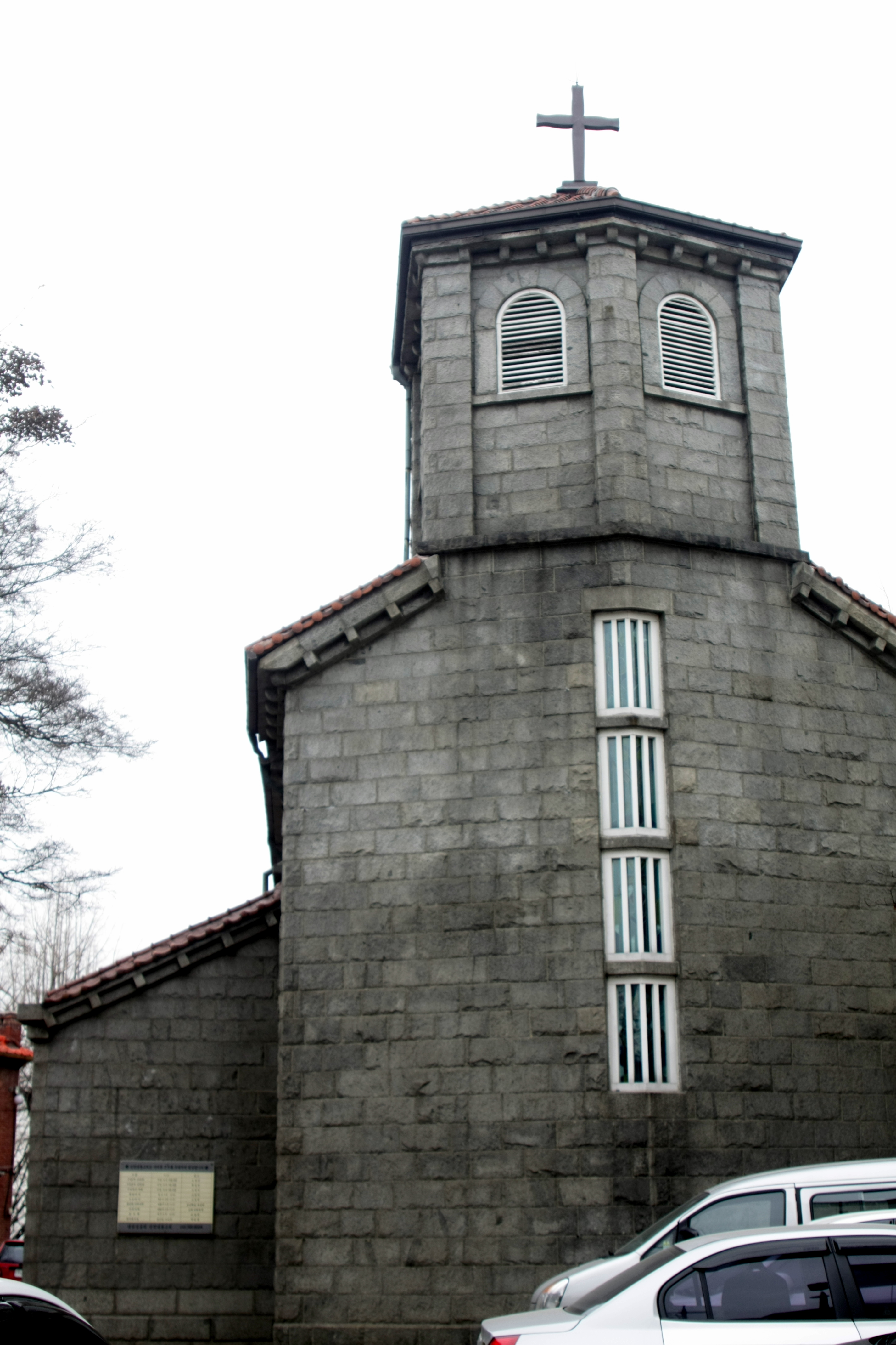 Naedong Anglican Church in Incheon, korea